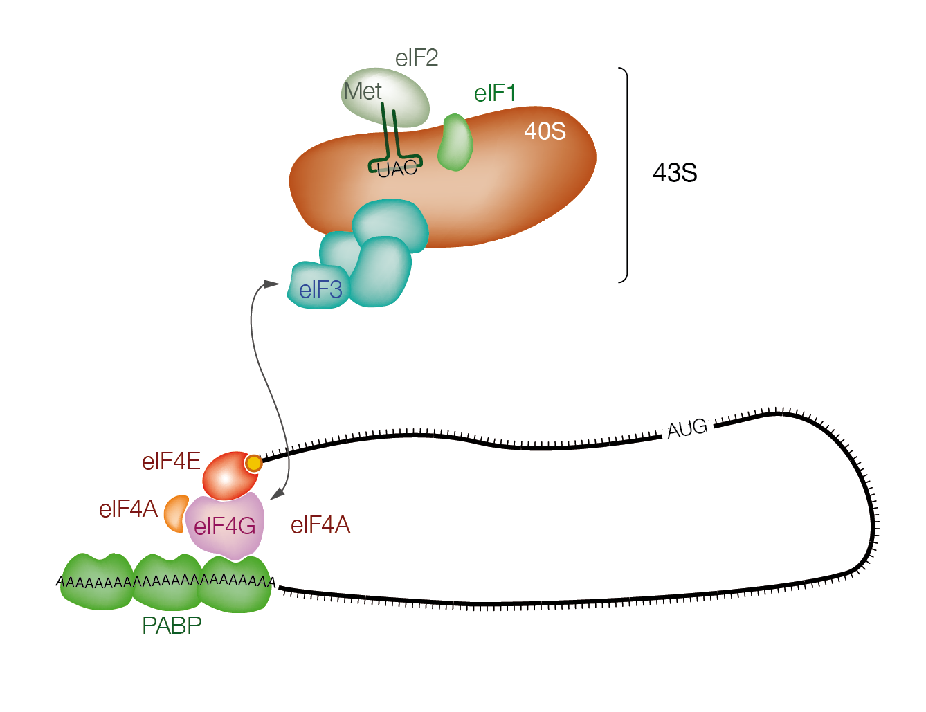 Initiation of protein translation in eukaryotes: recruitment of the ribosome small subunit to the circular mRNA. Shown are the translation initiation factors involved in the process.